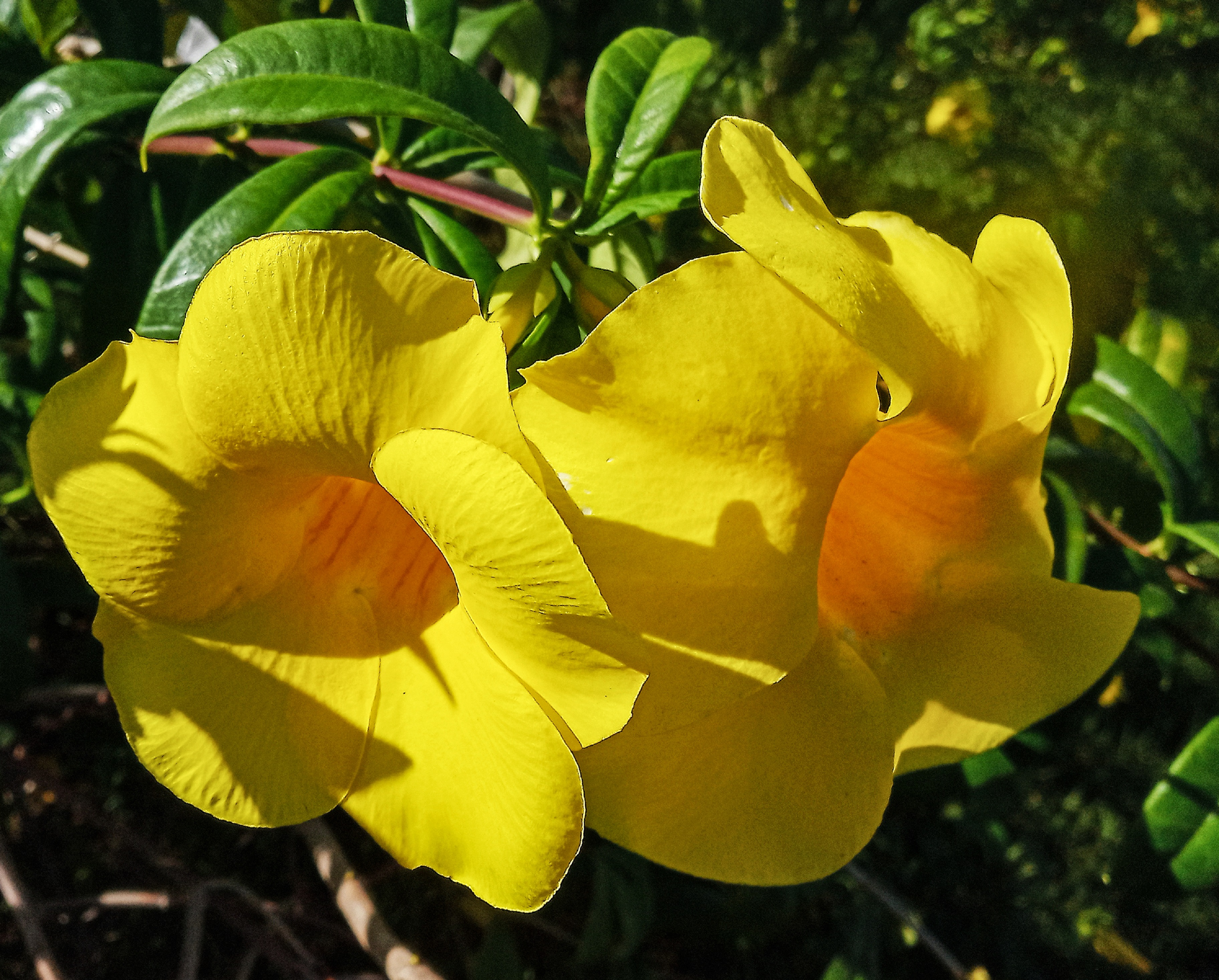 Yellow allamanda